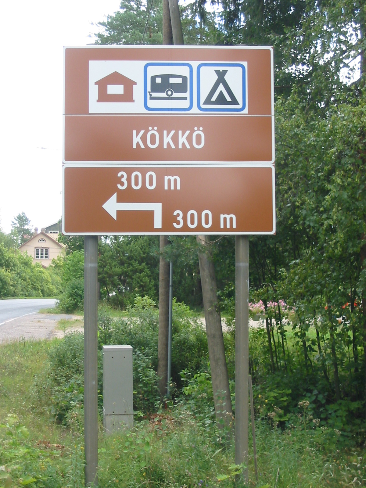 Road sign "Kökkö" in the Häme Oxen Road (connecting road 2810) in Somero, Finland